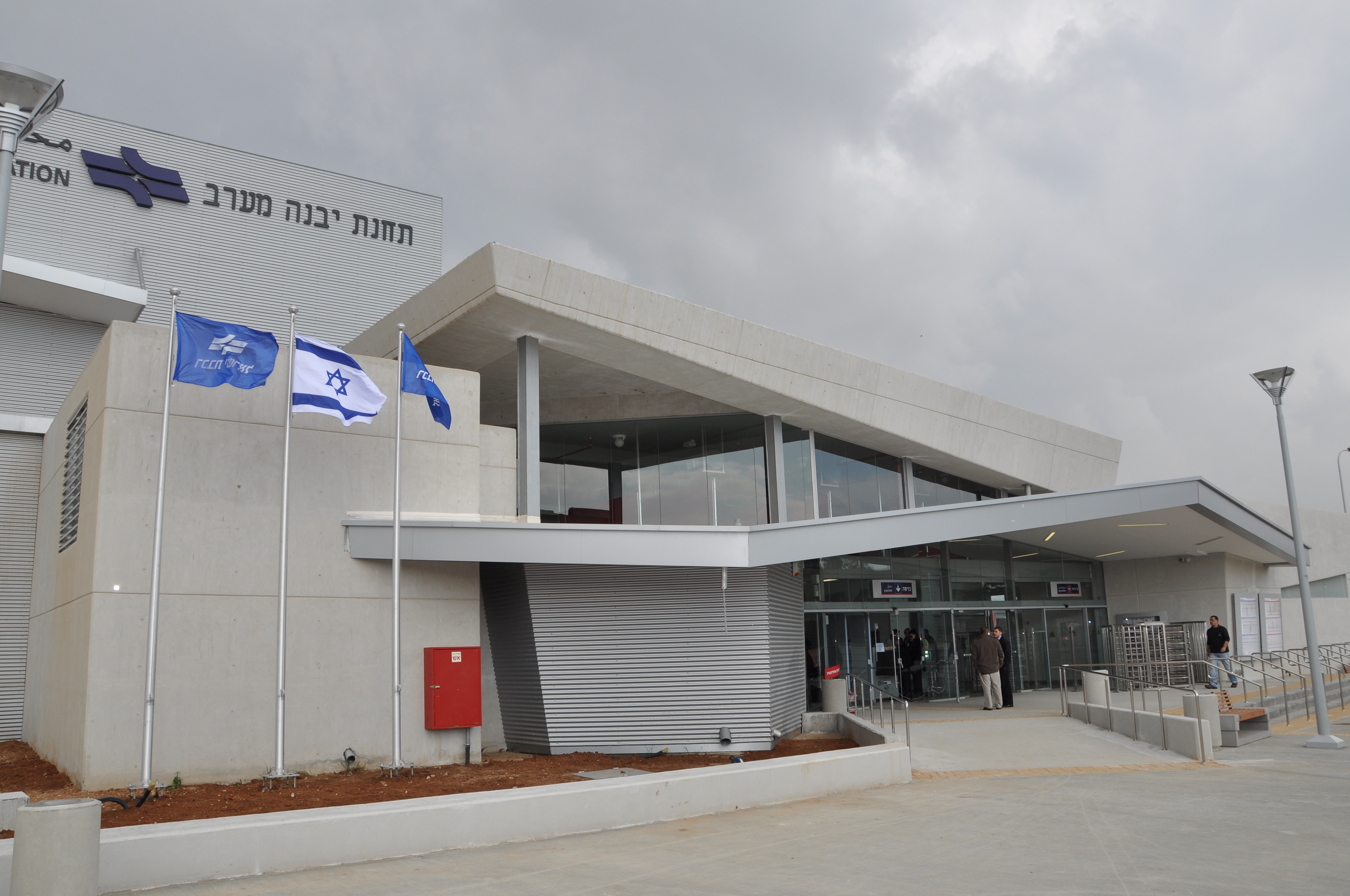 Yavne west train station